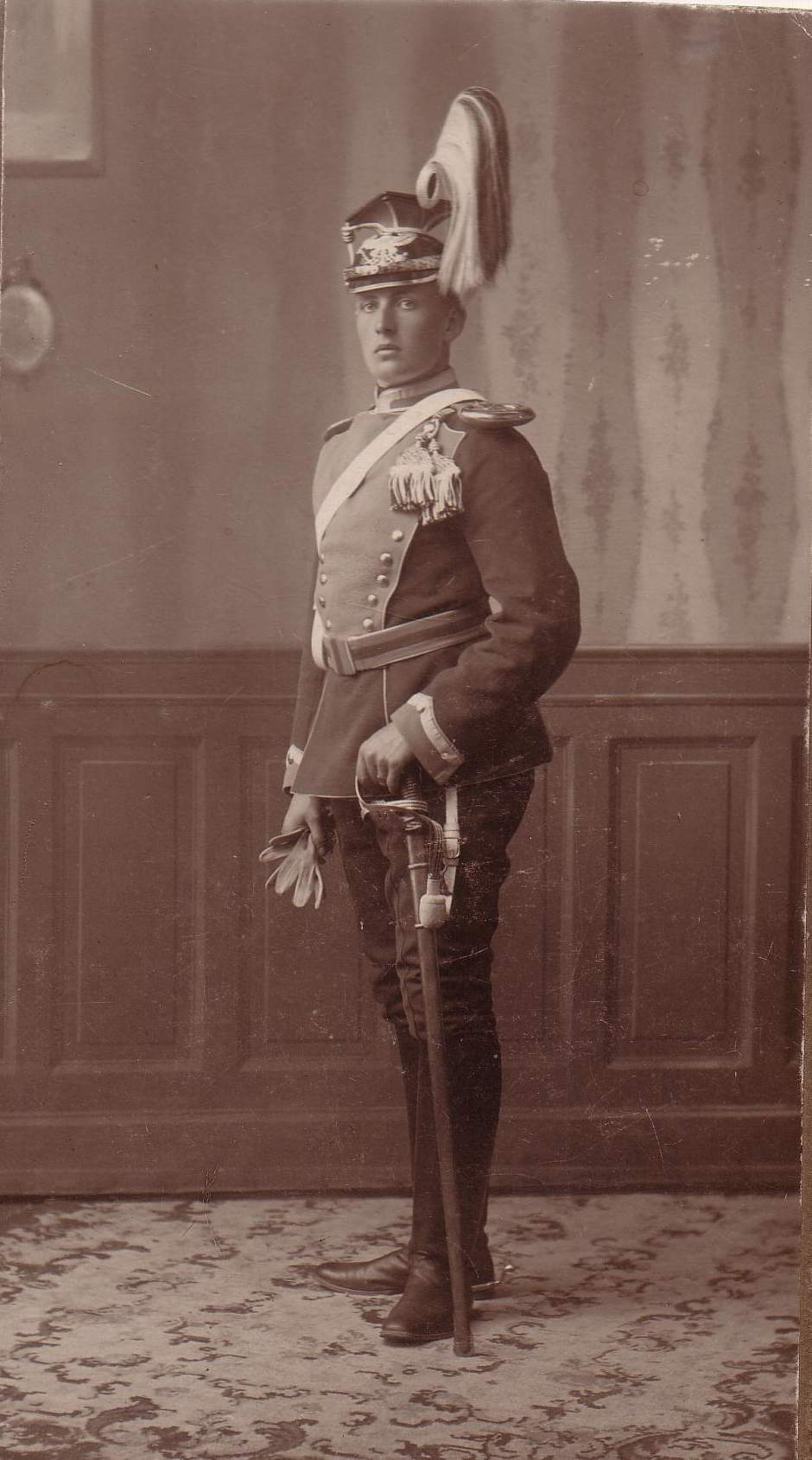 Fähnrich (military degree) in uniform of Ulanen-regiment